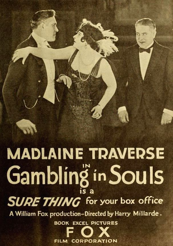 Ad for the American drama film Gambling in Souls (1919) with Herbert Heyes, Madlaine Traverse, and Murdock MacQuarrie, on page 1289 of the March 8, 1919 Moving Picture World.